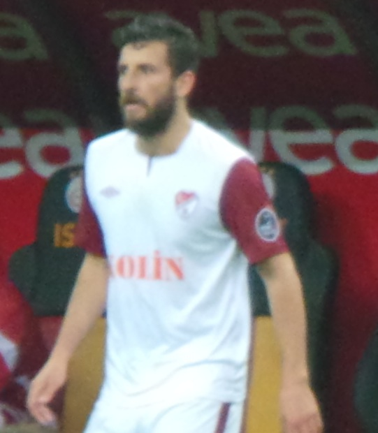 Eren vs Galatasaray